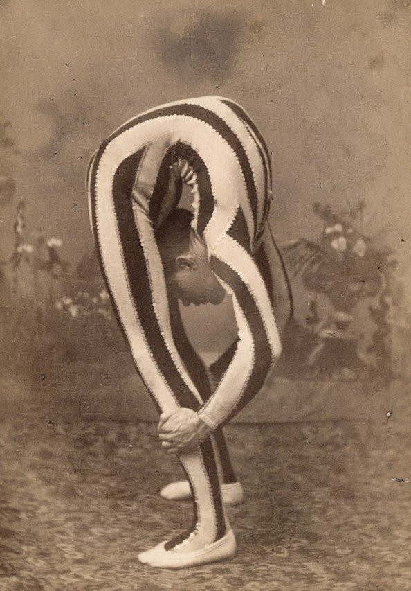 Accession Number: 2003:1171:0010 Maker: Thiele's Photographic Rooms Title: Contortionist, posed in studio Date: ca. 1880 Medium: albumen print Dimensions: Image: 14.4 x 10 cm (5 11/16 x 3 15/16 in.) Mount: 16.3 x 10.7 cm (6 7/16 x 4 3/16 in.) George Eastman House Collection